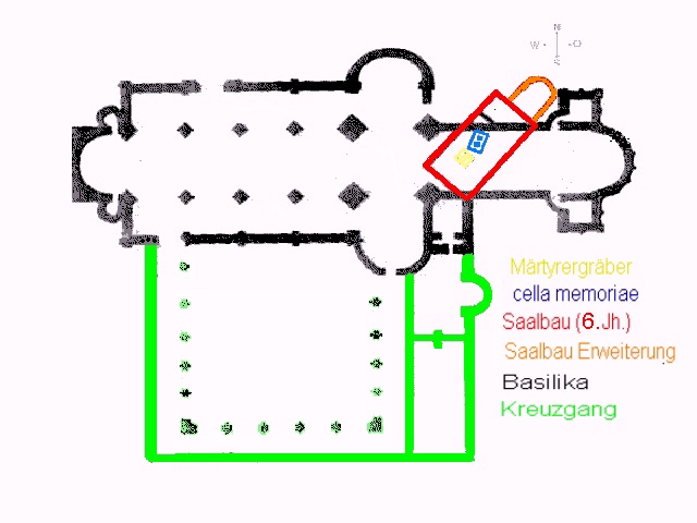 Ground plan of the Bonner Münster